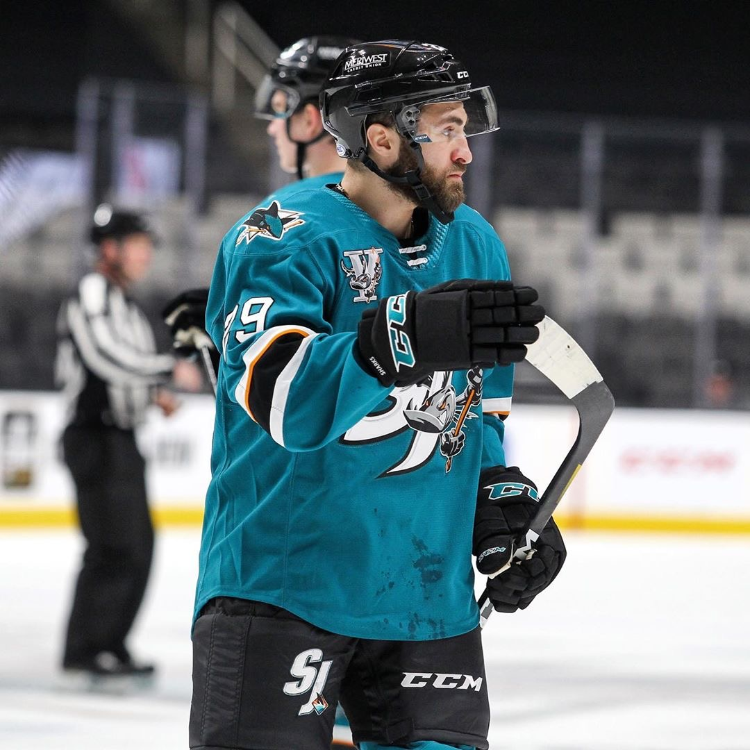 Anthony Greco of the San Jose Barracuda